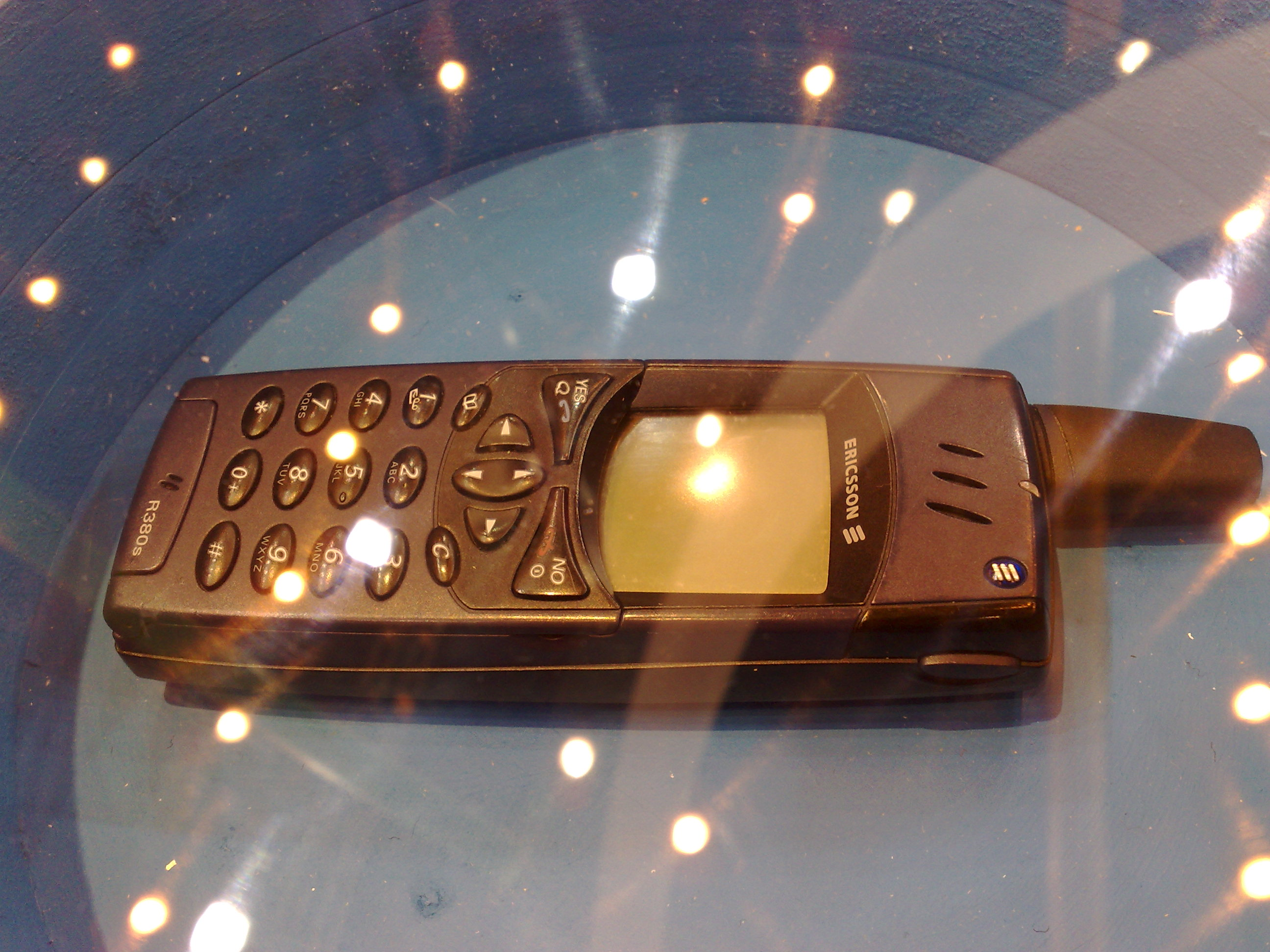 Ericsson R380